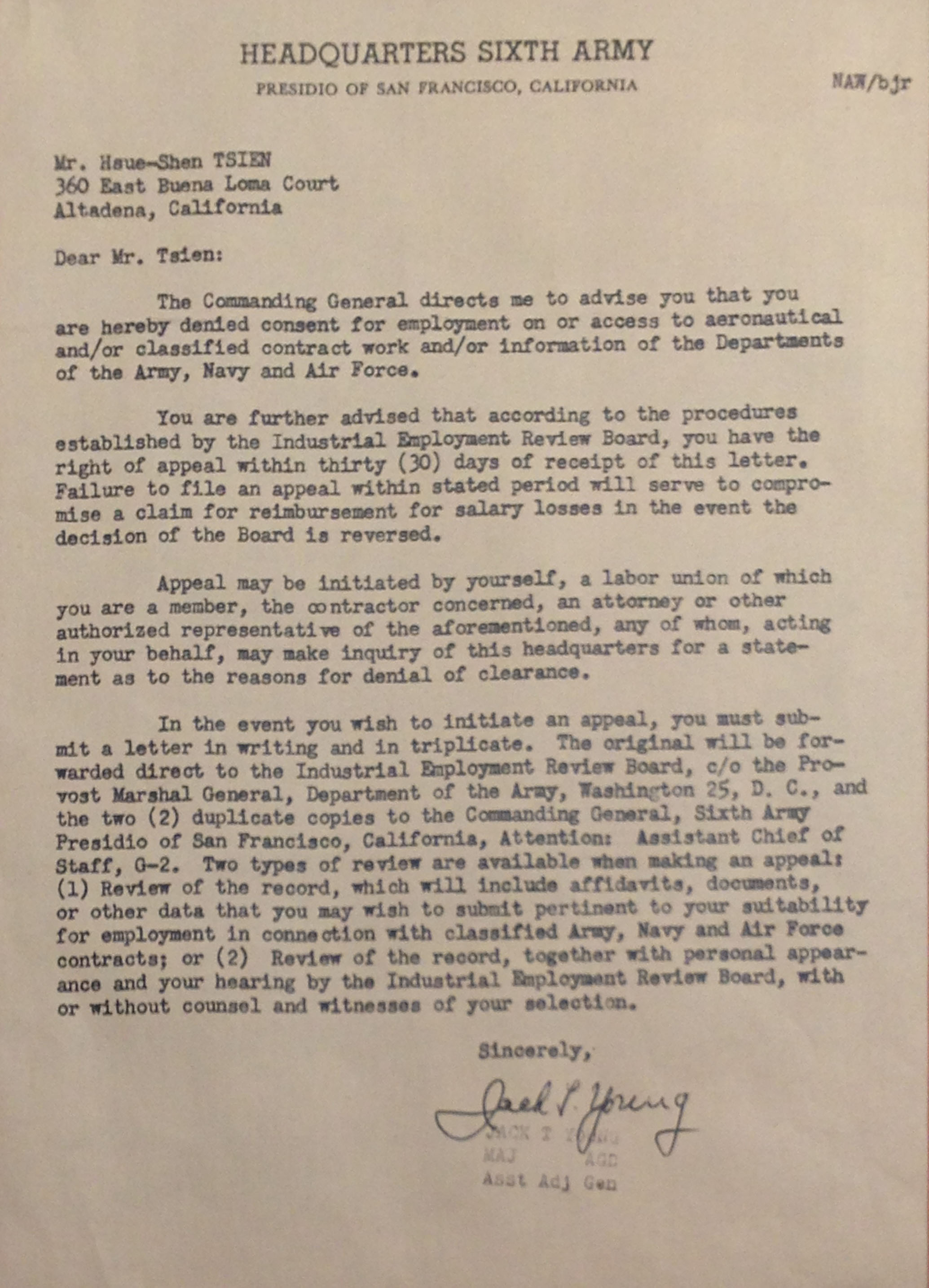 The letter from US Army to Qian Xuesen, dated July 1950, in which he was notified that his access to military secret research would be revoked.